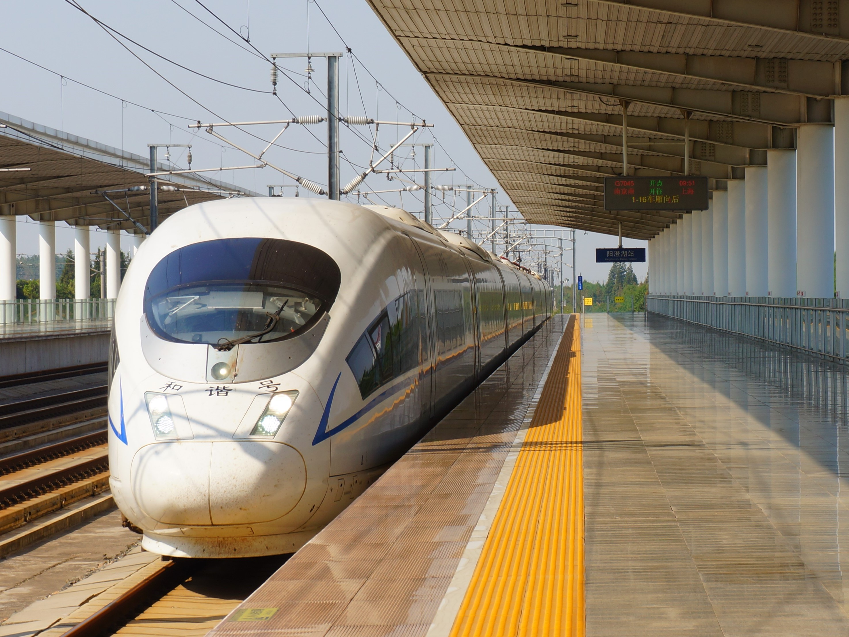 201510 CRH380B as G7045 enters into Yangchenghu Station